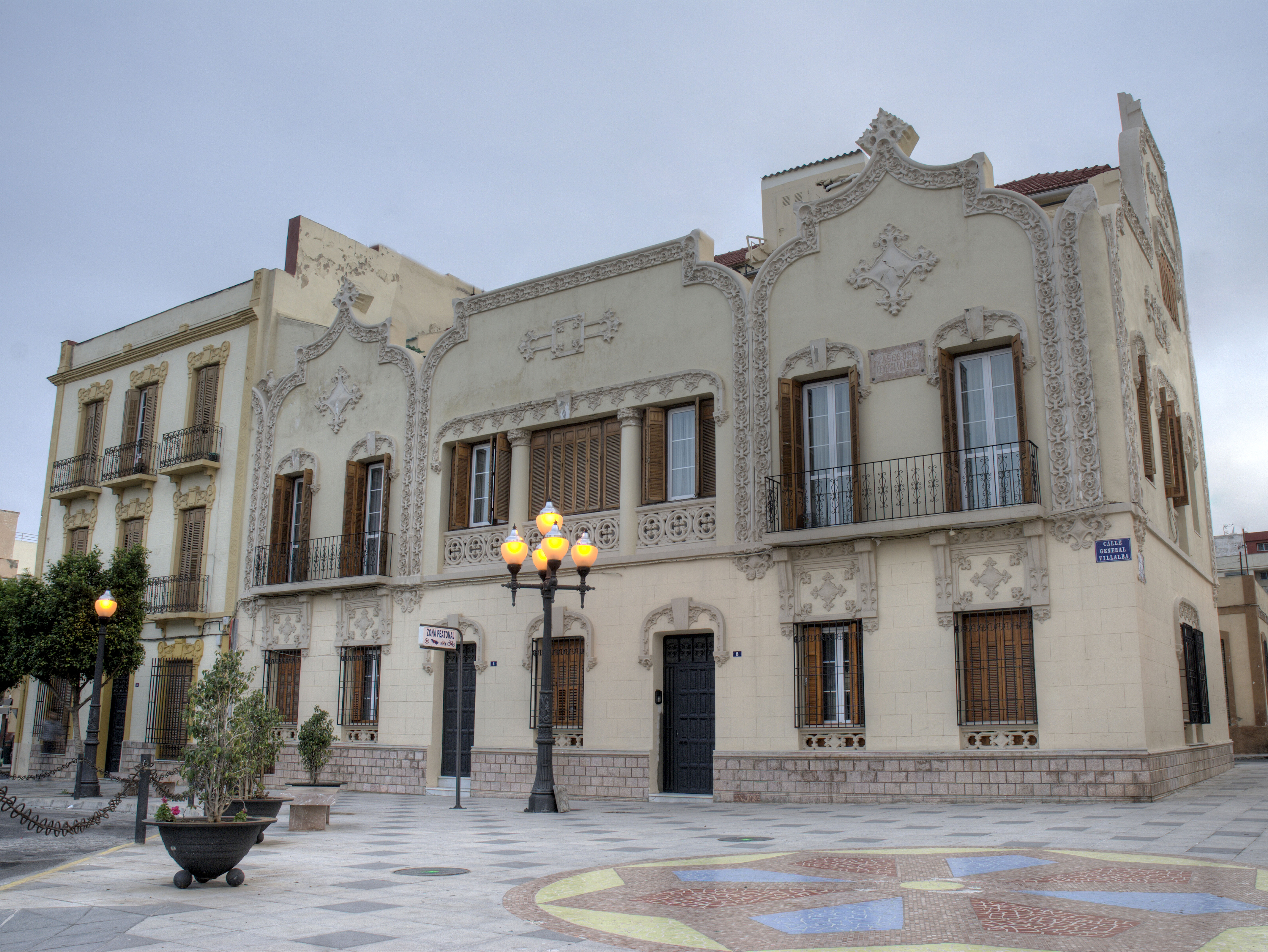 House in Melilla